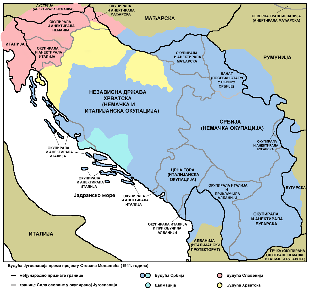 Future Yugoslavia according to project of Stevan Moljević (1941).